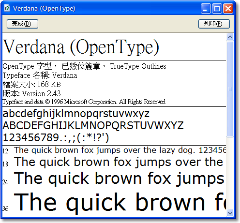 The quick brown fox jumps over the lazy dog.